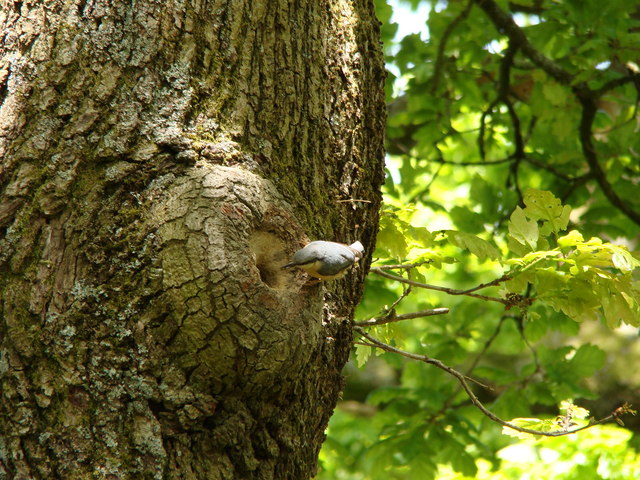 Wildlife in woods A Nuthatch feeding its young in woods on old site of Cilely colliery.